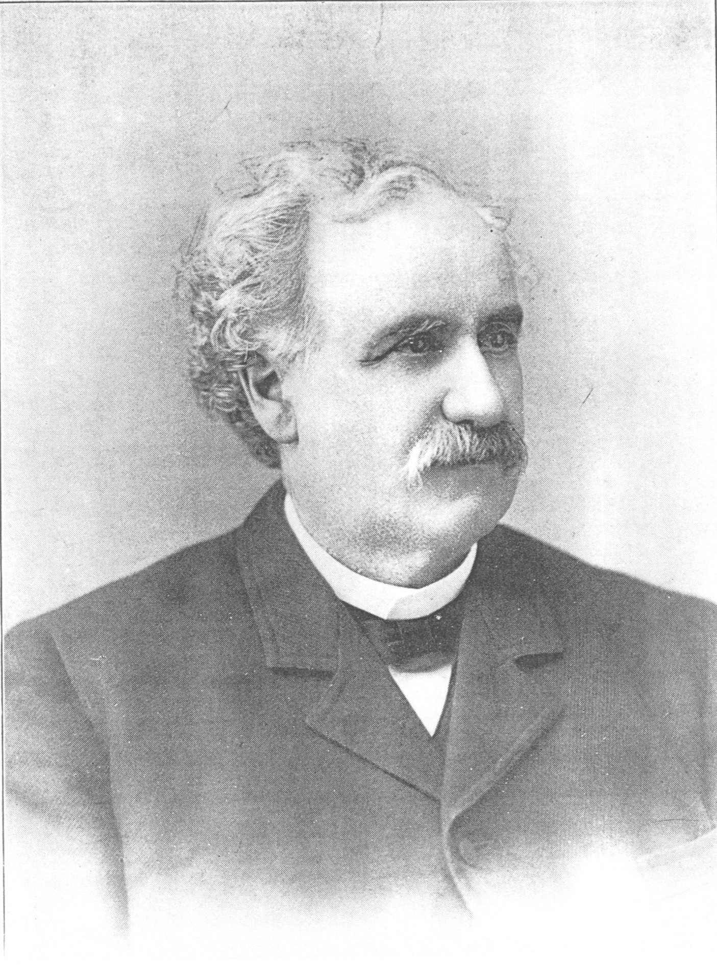 CG Williams